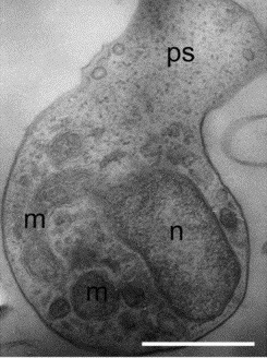 Amoeboid zoospore of Amoeboaphelidium protococcarum. Filopodia often producing by broad anterior pseudopodium (ps, white arrow), m, mitochondrium, n, nucleus, arrowheads show pseudocilium. Scale bar: 1 μm.